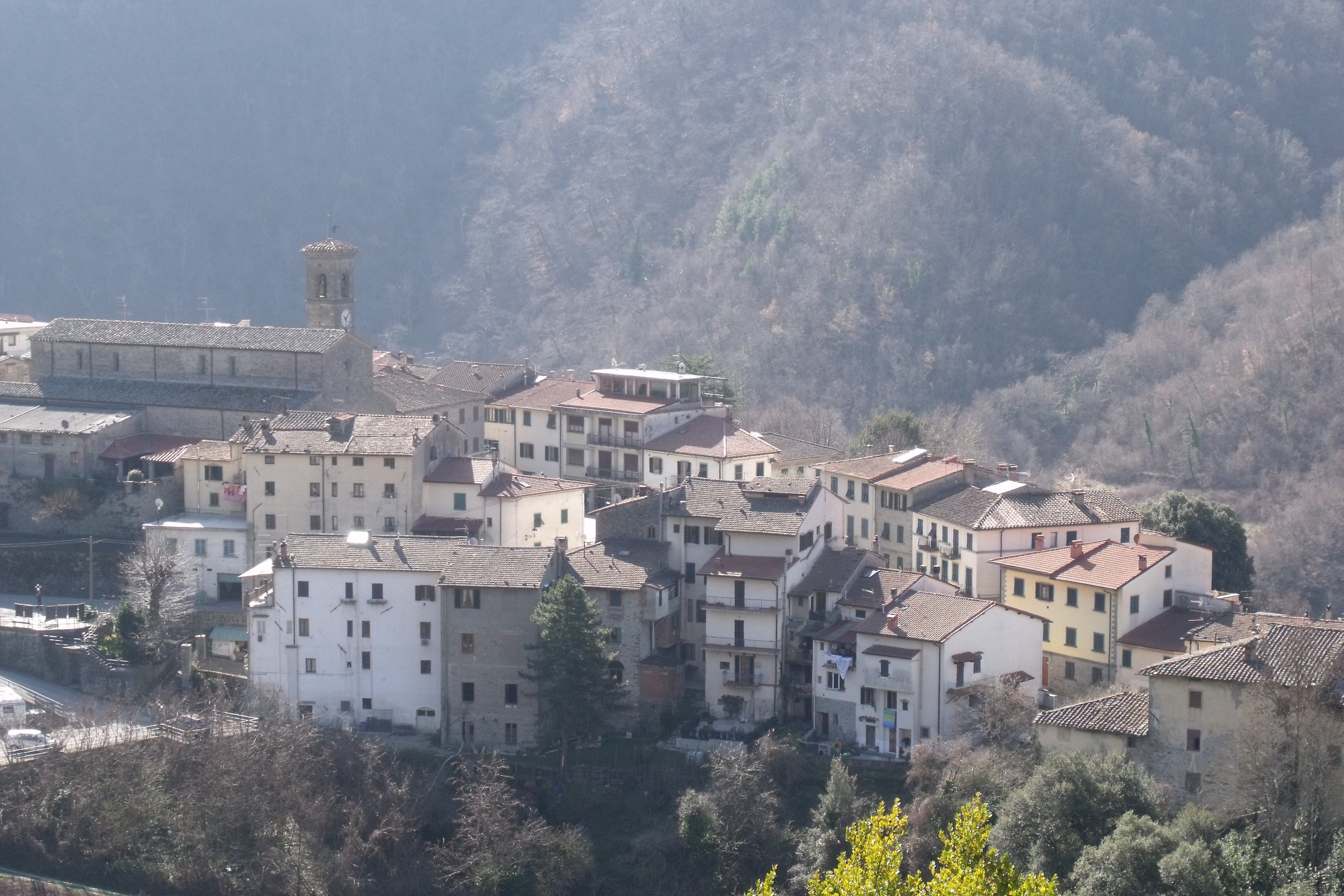 Panorama of San Godenzo, Province of Florence, Tuscany, Italy